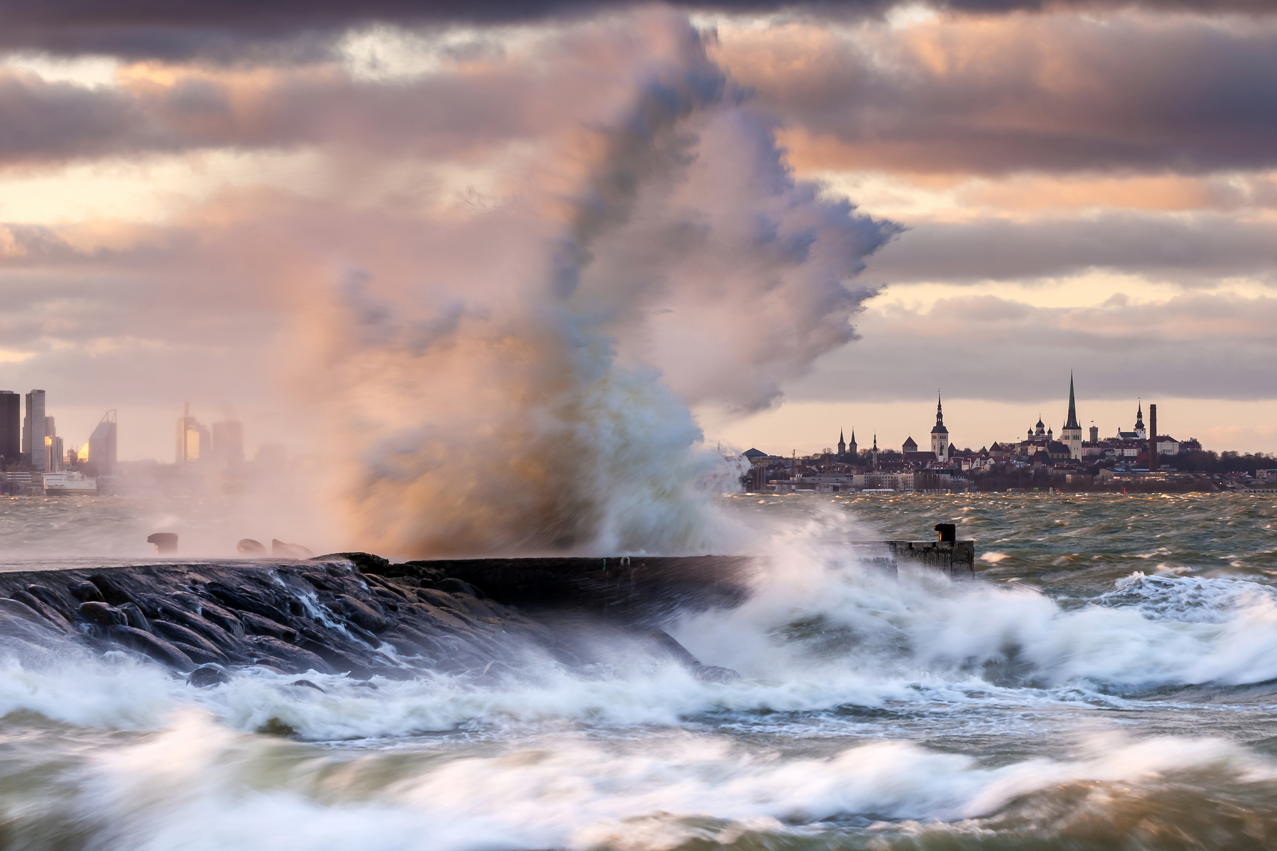 Tallinn bay during December storm from Merivälja. Tallinn, Estonia.